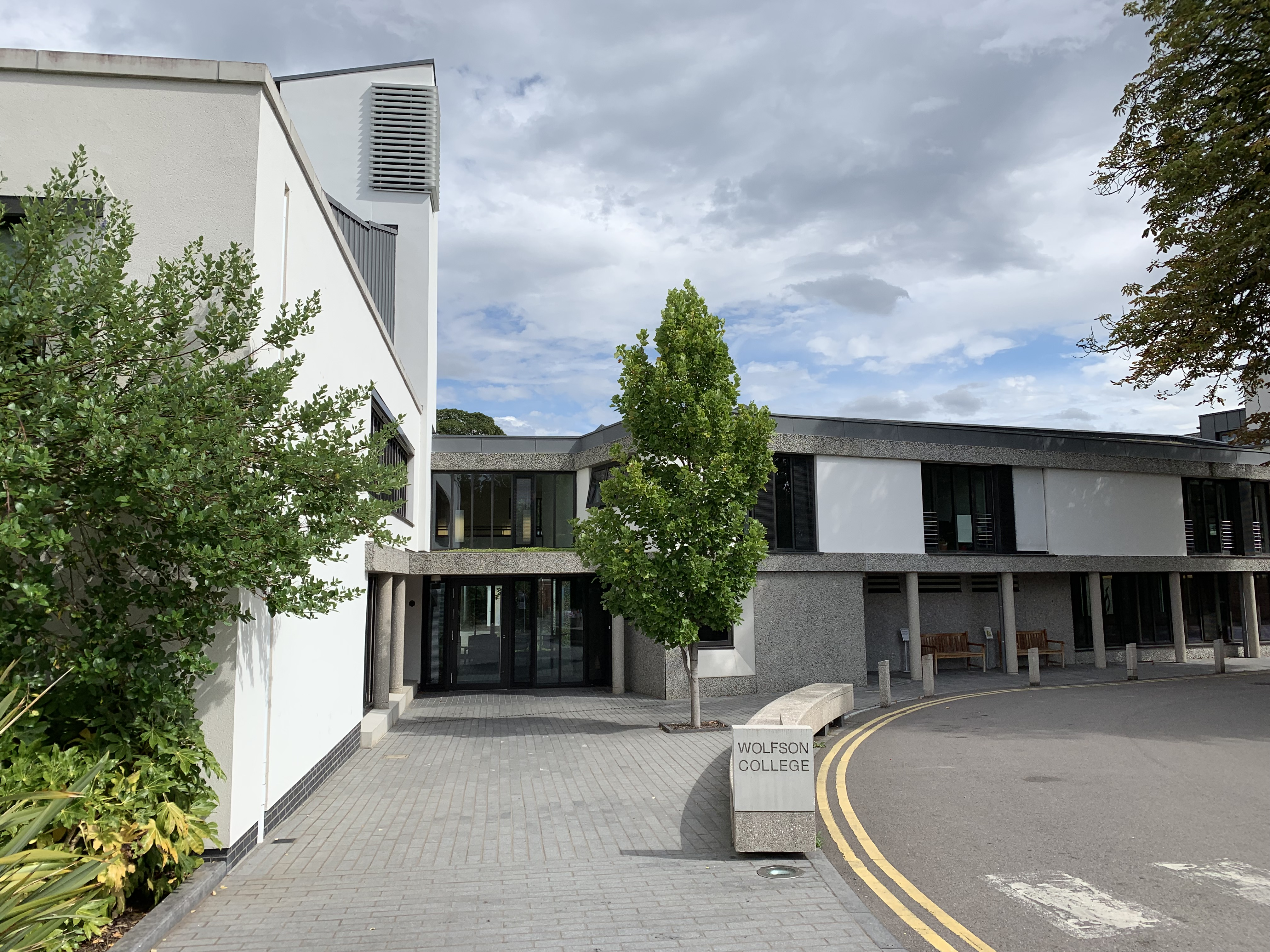 Entrance of Wolfson College, Oxford